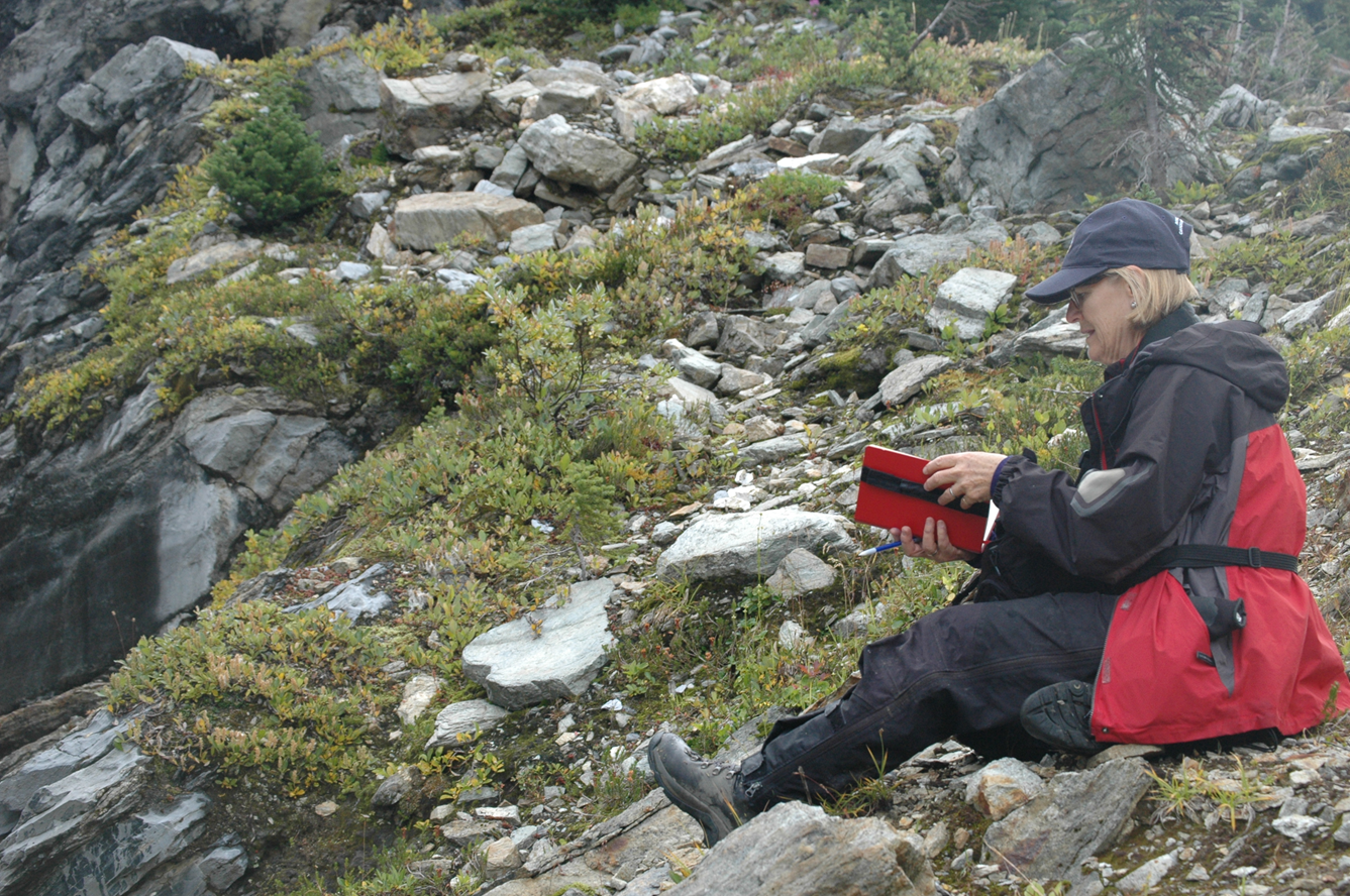 Catherine Hickson taking notes on the geology of the cave. (Photo by John Pollack)